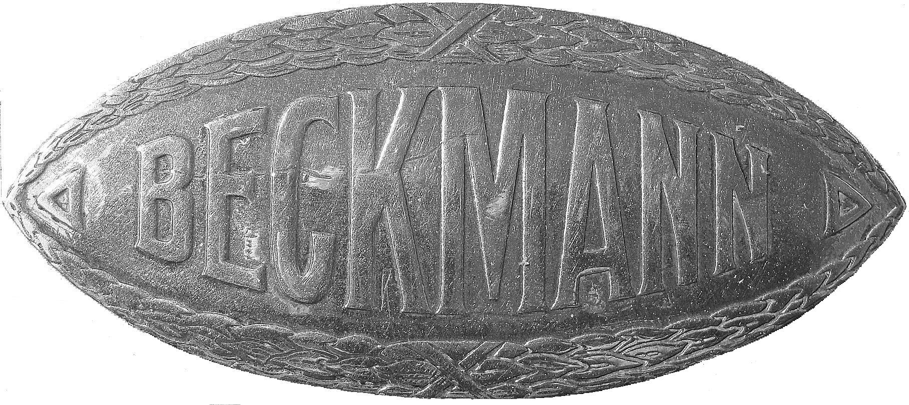 Emblem of a Beckmann Vehicle from 1911